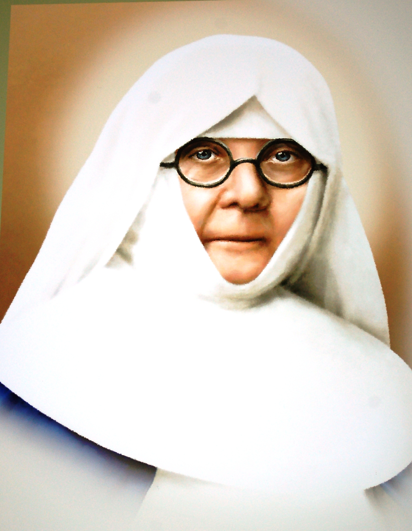 Foto from old pastel drawing (drawing ca from 1880-1890). The foto was graphically changed (coloured, ..): Marcelina Darowska, co-founder of a catholic congregation (Poland)